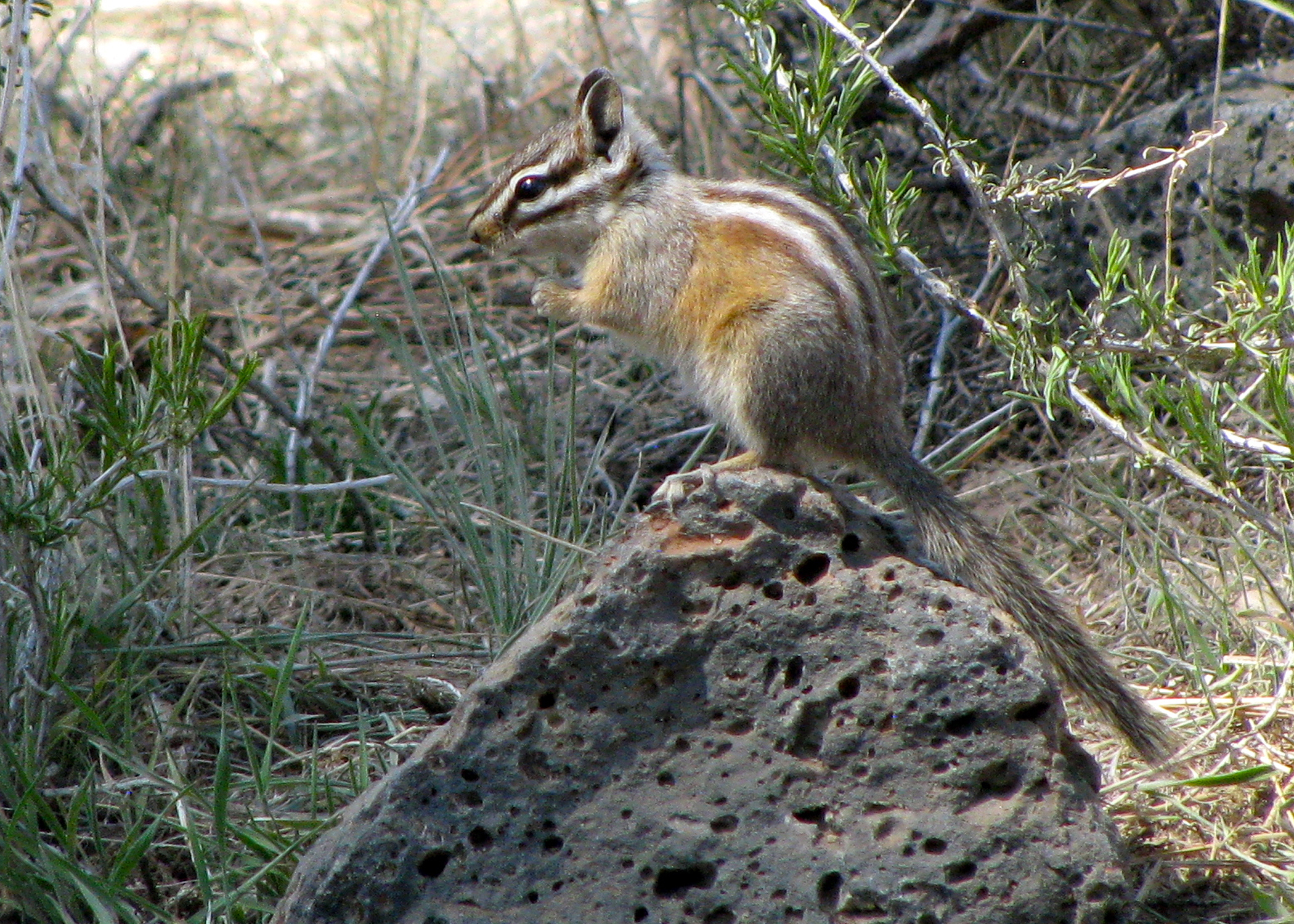 The yellow-pine chipmunk eats seeds, fruits, bird eggs, berries, flowers, bulbs, roots, fungi and the buds of woody plants.